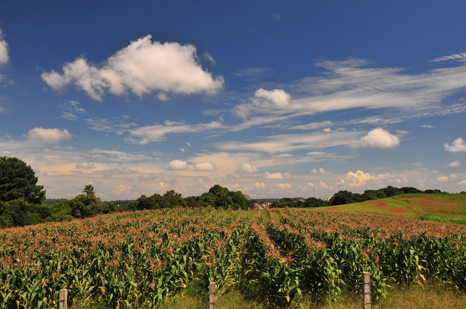 Curitiba - arredores (by sidney.gauss)